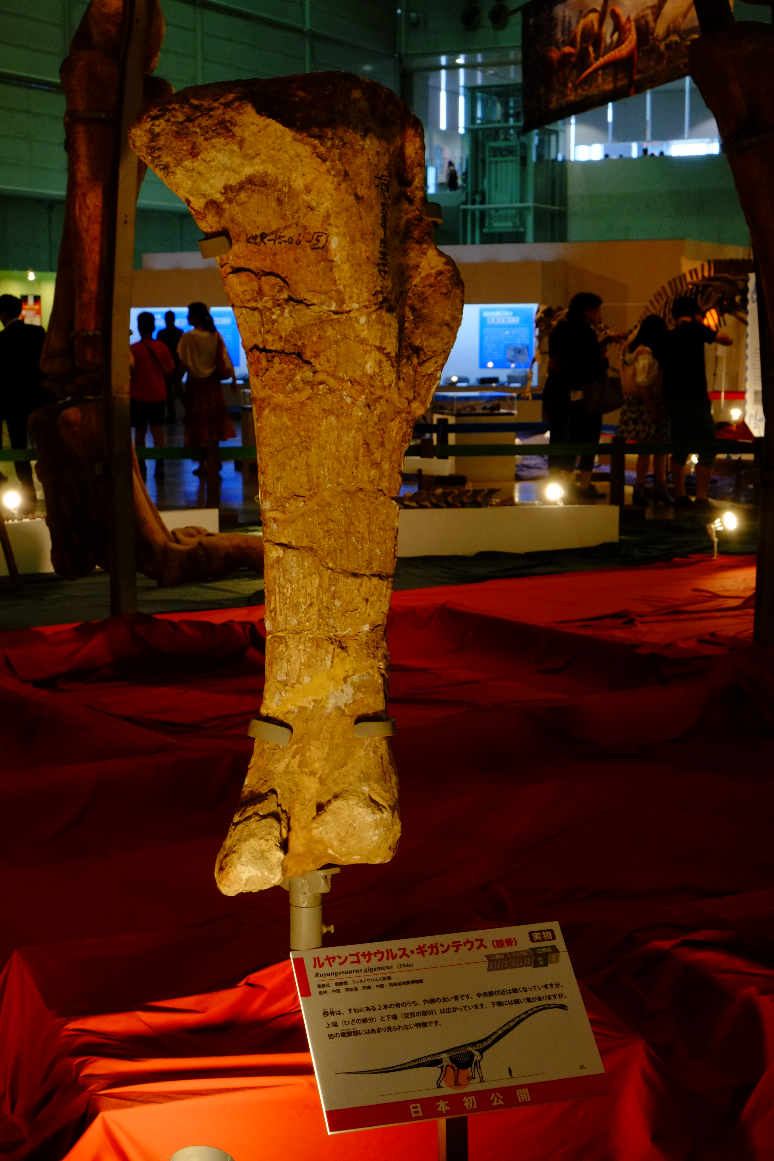 Tibia of the titanosaurian sauropod Ruyangosaurus